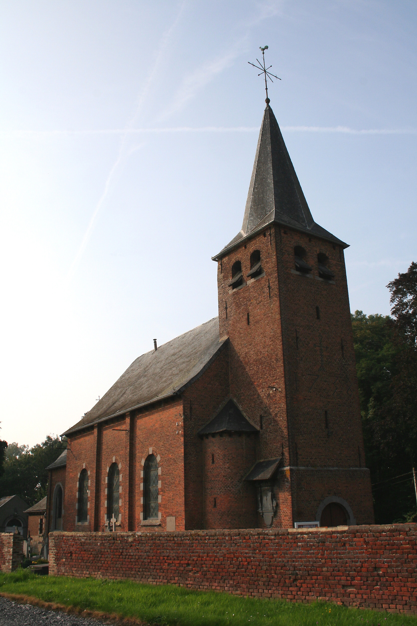 Louvignies (Belgium), the St. Radegund church (XVI/XVIIIh centuries).